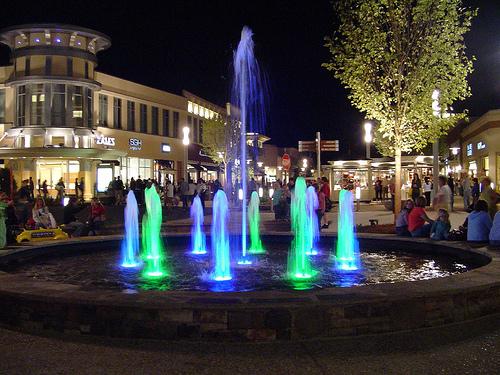 Rogers, Arkansas.